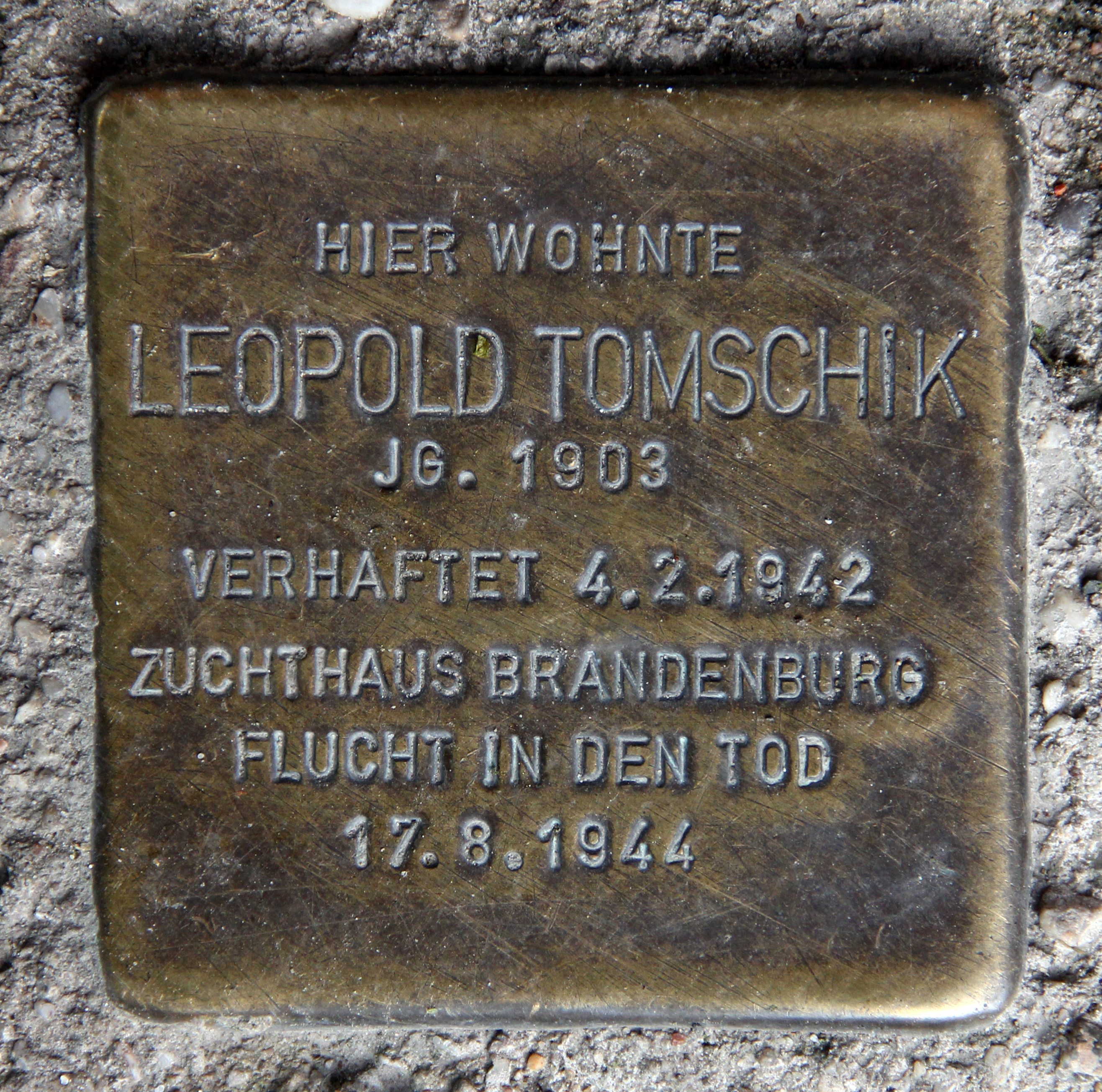 "Stolperstein" (stumbling block), Leopold Tomschik, Dunckerstraße 58, Berlin-Prenzlauer Berg, Germany